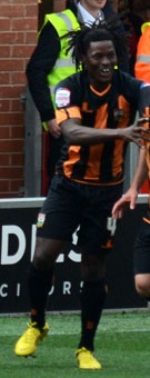 Clovis Kamdjo playing for Barnet against Fleetwood Town at Highbury Stadium, Fleetwood on 29 September 2012